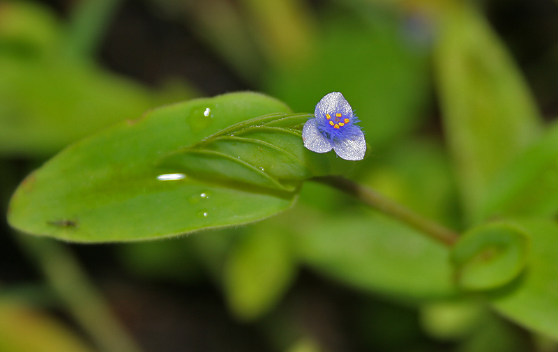 Nabhali or Crested Cat Ears Cyanotis cristata in Hyderabad , India.